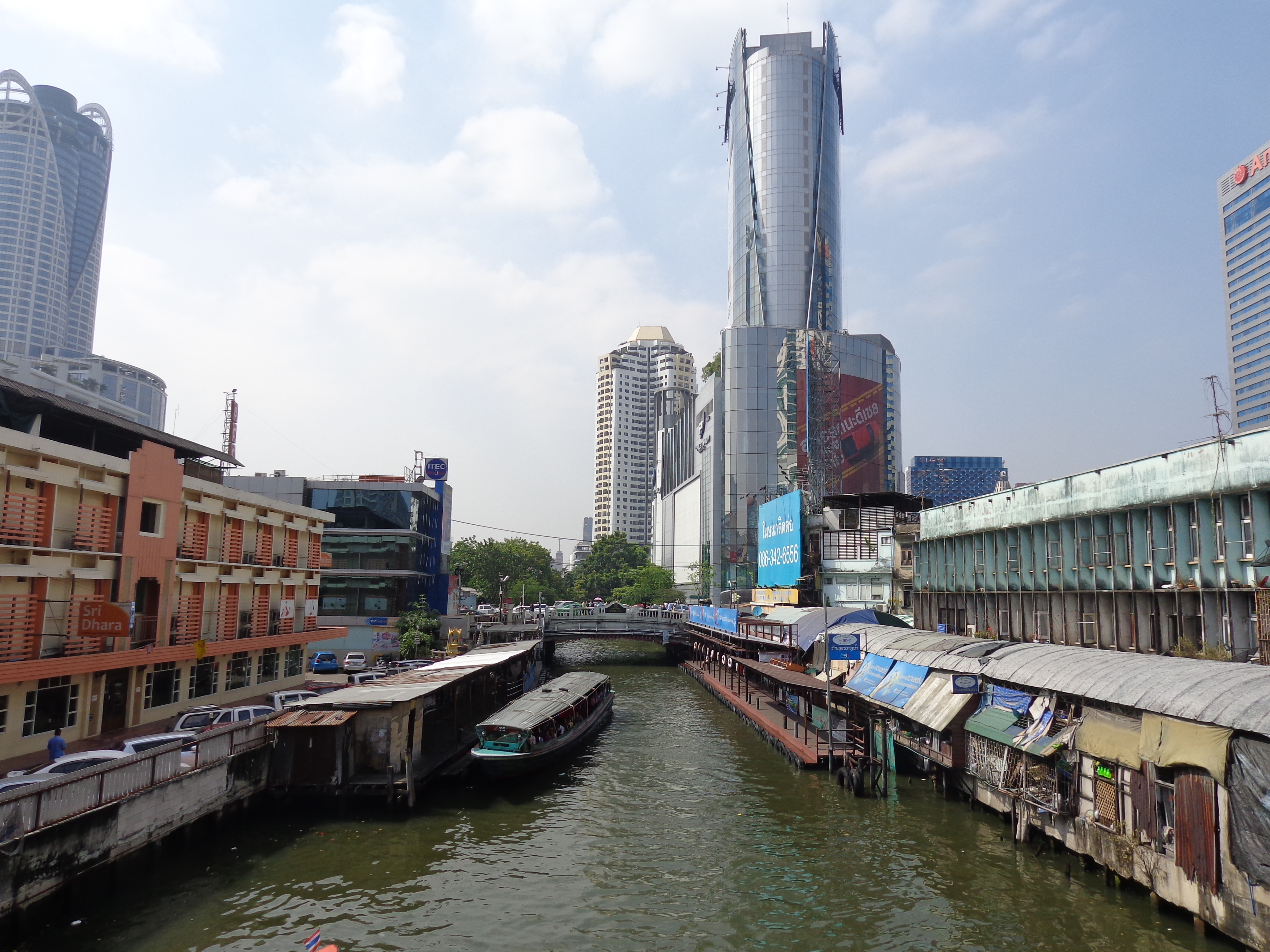 Major ferry boat stop Khlong Saen Saep boat service Bangkok with skyscraper